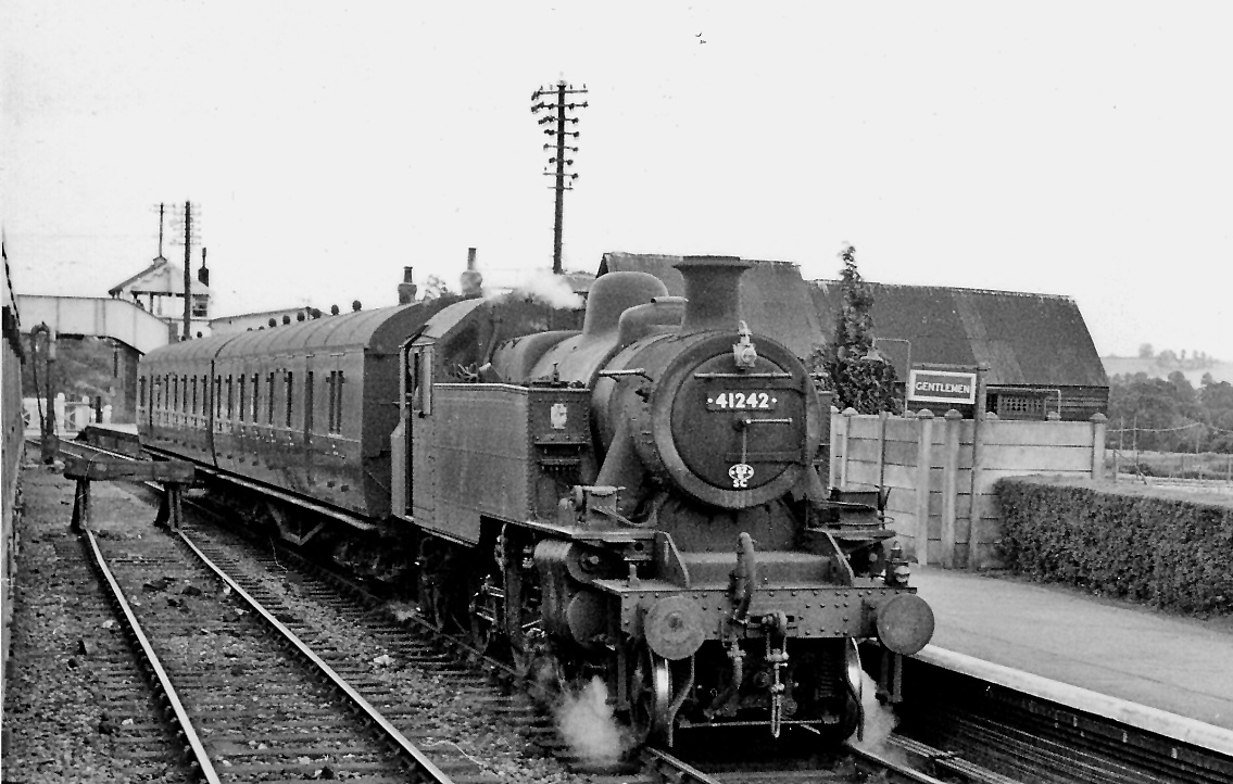 Highbridge branch train at Evercreech Junction. View SE, towards Templecombe and Bournemouth: ex-Somerset & Dorset Bath - Bournemouth line, junction of branch to Highbridge and Burnham-on-Sea. The 17.00 to Highbridge is headed by LMS-type Ivatt 2MT 2-6-2T No. 41242 (built 10/49, withdrawn 4/65) - class extensively used on BR(SR) at that time. Evercreech Junction and all the lines were closed on 7/3/66.